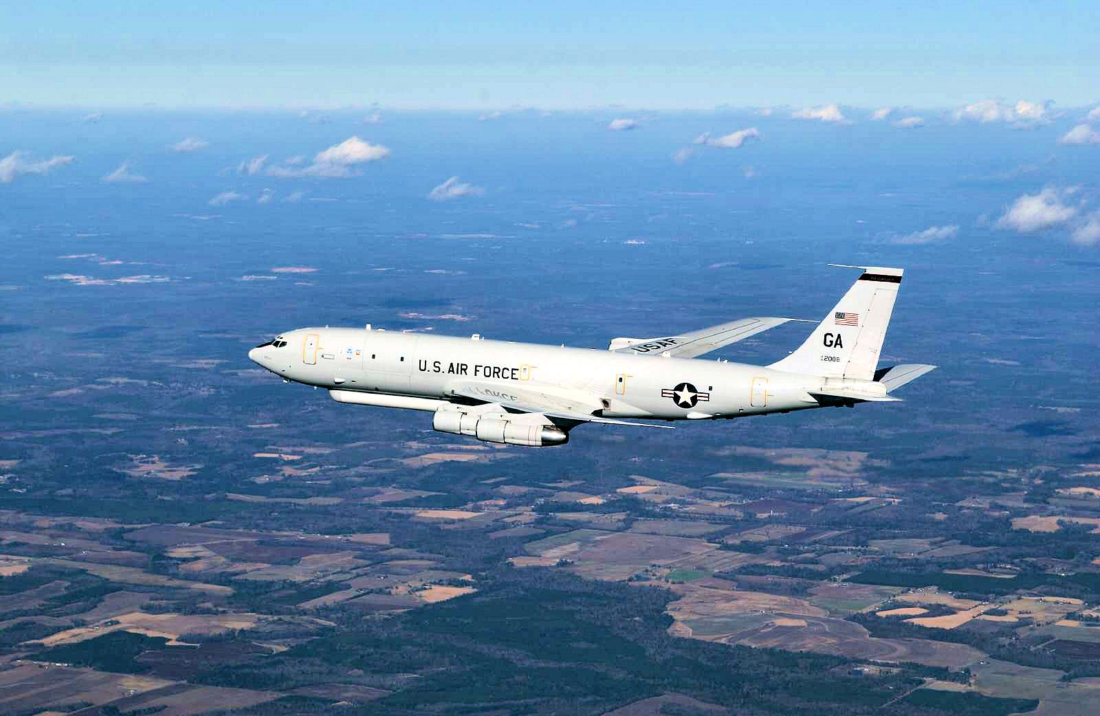 116th Airborne Control Wing E-8C Joint STARS 01-2005. Was C-18B 81-0892 (Boeing 707-323C, c/n 19382) airframe modified by Northrop Grumman as JSTARS aircraft. Damaged on ground during Hurricane Rita at Lake Charles, LA Sep 24, 2005. AFM 1/2006.